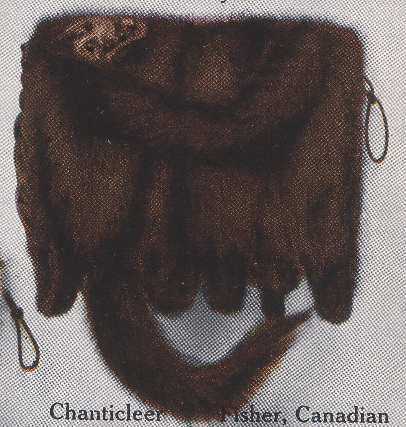 Albrecht's Fur Facts & Fashion 1912-13, Saint Paul, Minnesota. Cut. Albrecht Chanticleer Muff, $ 18.00; $ 24.00; 30.00. Albrecht Chanticleer Muff in Arctic white fox and Canadian Fisher. This style is adapted to long haired furs from larger animals.